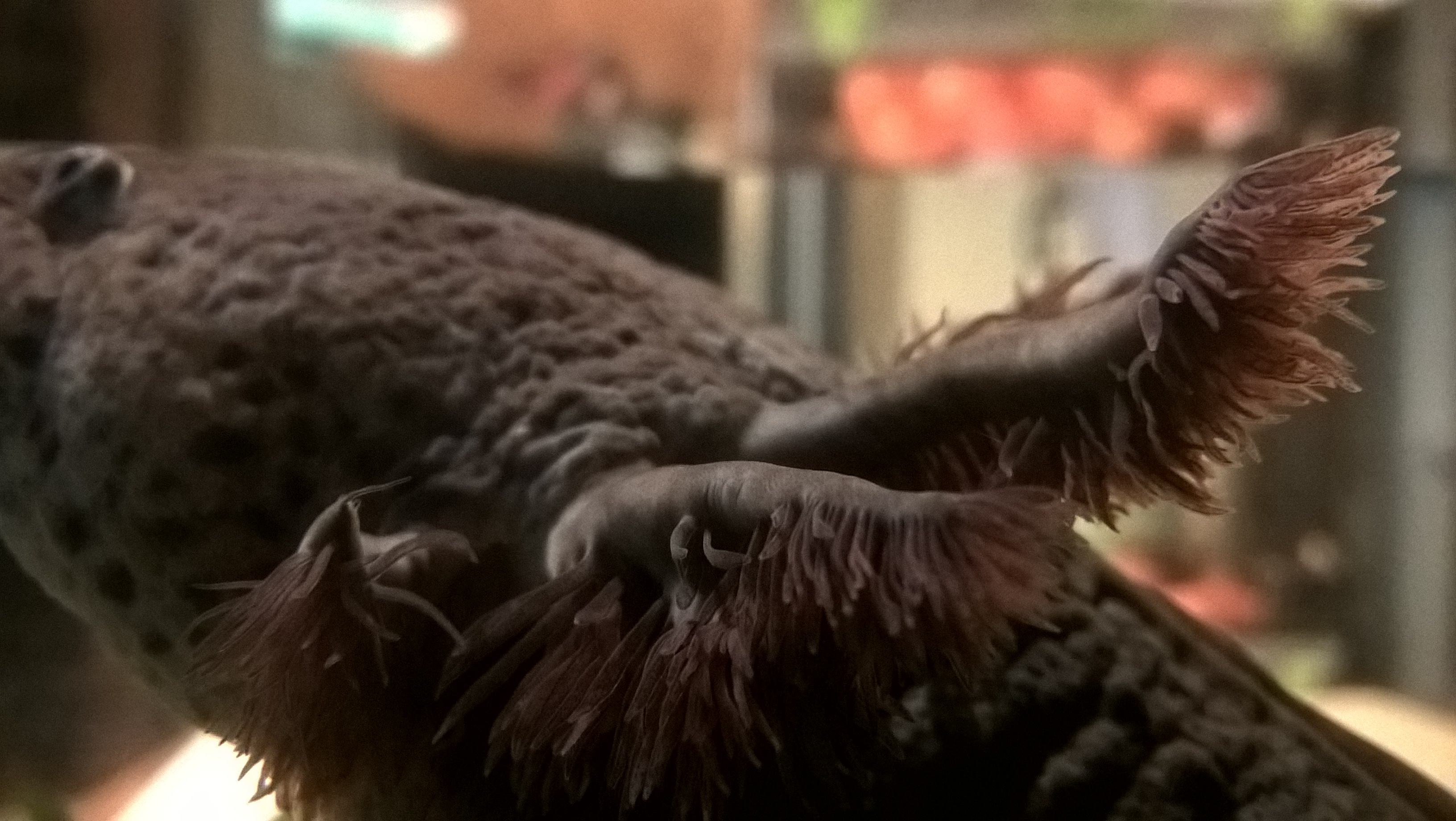 A sexually mature male adult axolotl. This is the wild type animal and it's 4 years old. The gills change color, from black when the axolotl is inactive, to red when it is active.The axolotl is a neotenic salamander, and it is an amphibian. The species originates from numerous lakes near Mexico city. Axolotls are unusual among amphibians in that they reach adulthood without undergoing metamorphosis.